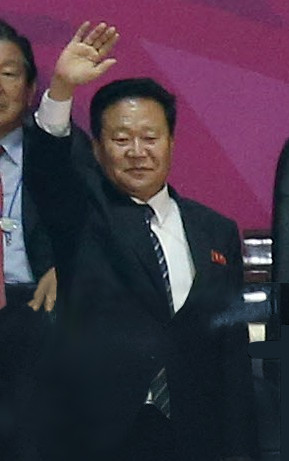 Incheon Asian Games 2014 Closing Ceremony October 4, 2014 Incheon Asiad Main Stadium, Incheon-si Ministry of Culture, Sports and Tourism Korean Culture and Information Service ( Official Photographer : Jeon Han This official Republic of Korea photograph is CC-BY-SA-2.0-licensed, so while restrictions such as personality or privacy rights may apply, in general, manipulations are allowed. If you require a photograph without a watermark, please use Flickr e-mail.